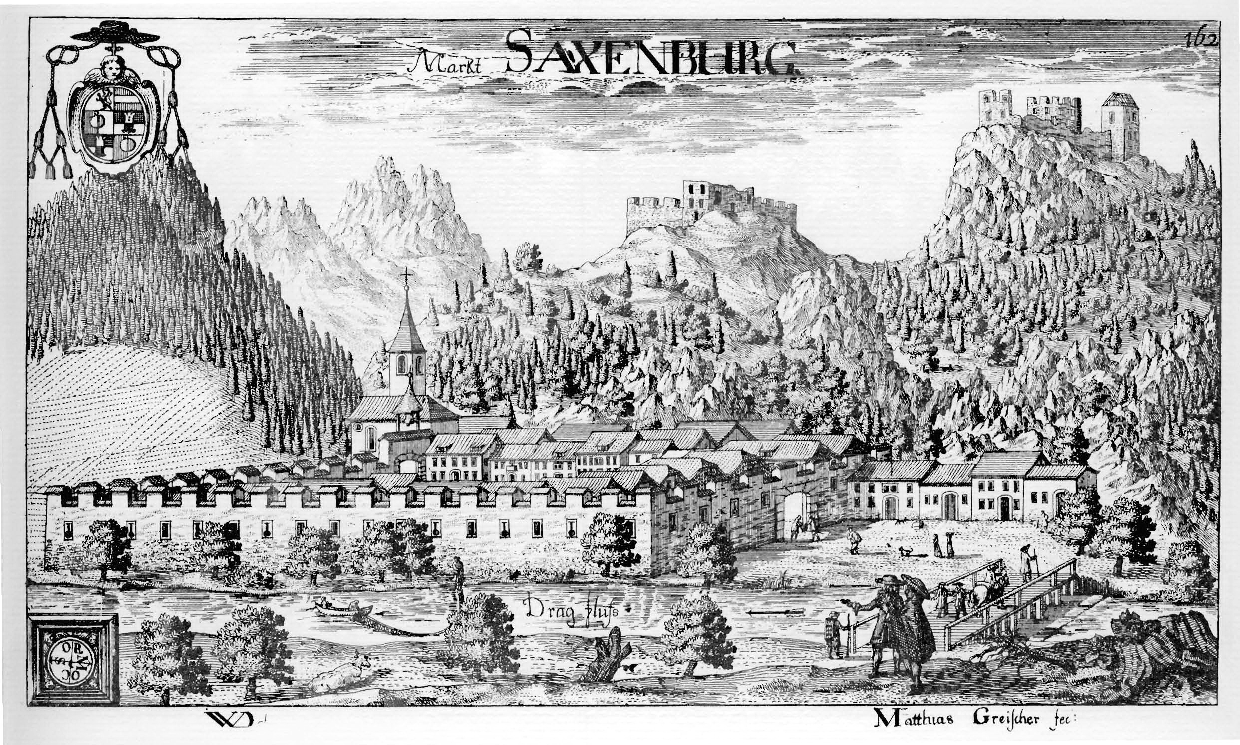 Castle of Sachsenburg in Sachsenburg in Carinthia / Austria / European Union.